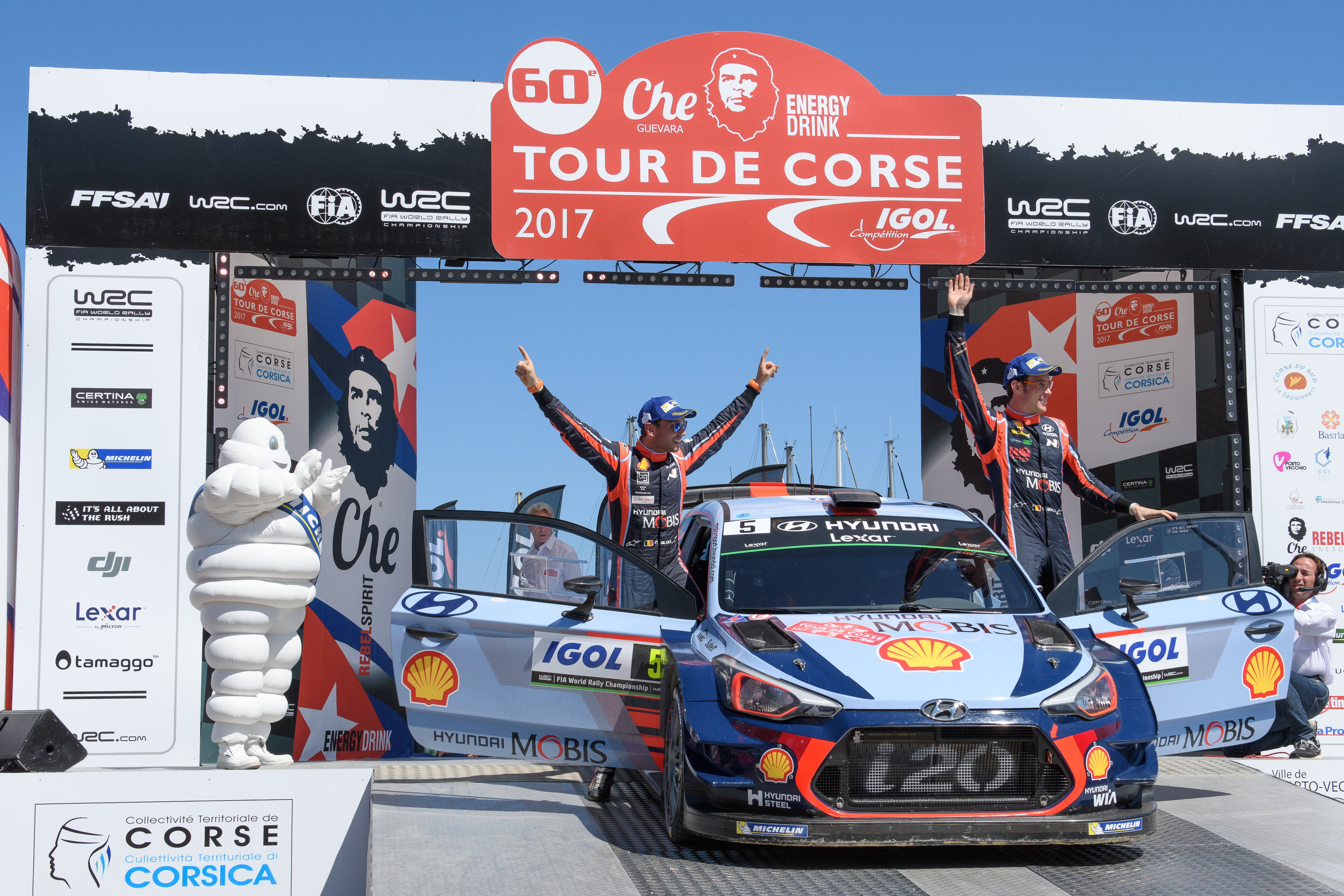 Thierry Neuville on the podium as winners of Tour de Corse 2017.